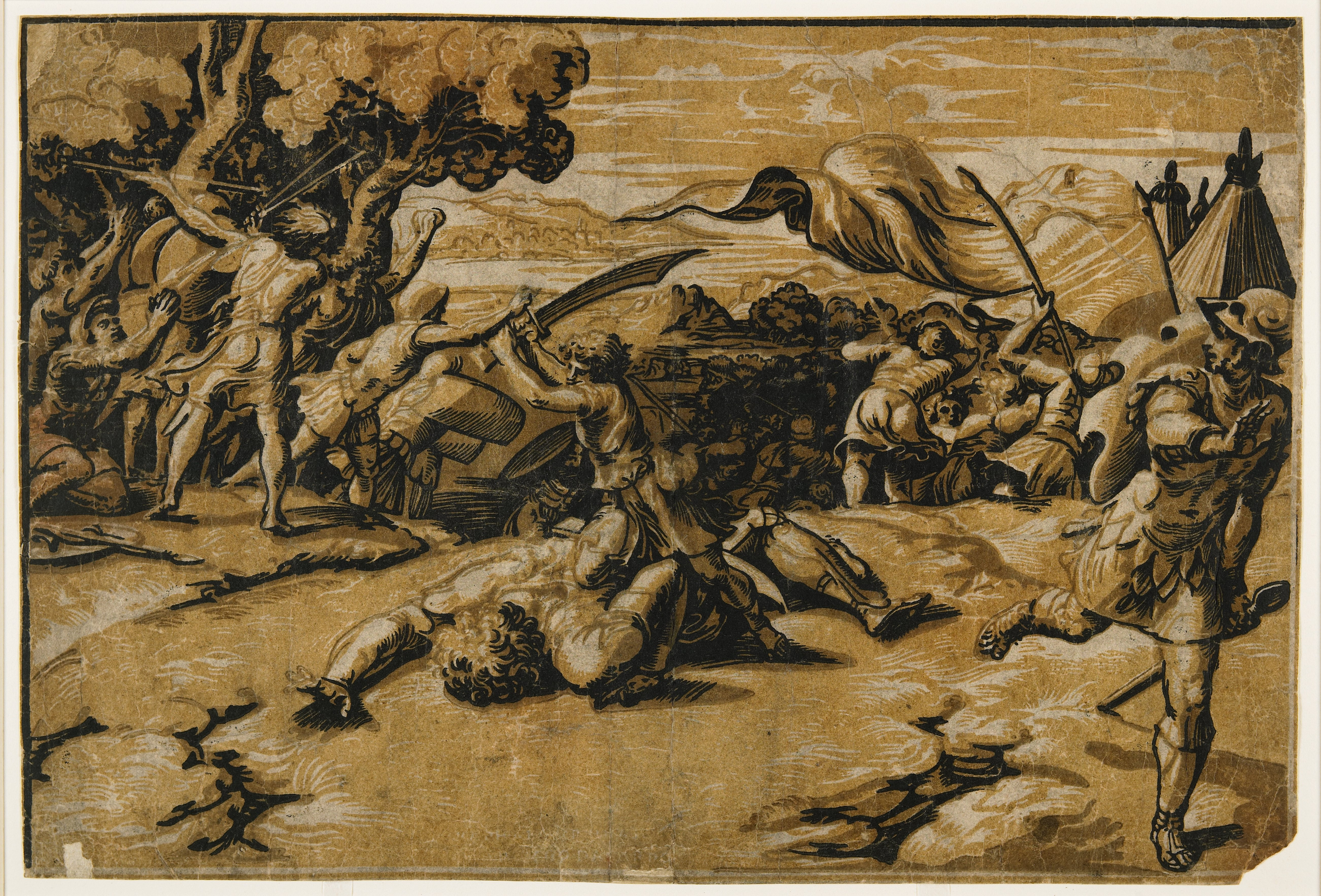 Italy, circa 1520-1527 Prints; woodcuts Chiaroscuro woodcut from three blocks Sheet: 10 3/8 x 15 1/16 in. (26.35 x 38.26 cm) Mary Stansbury Ruiz Bequest (M.88.91.167) Prints and Drawings